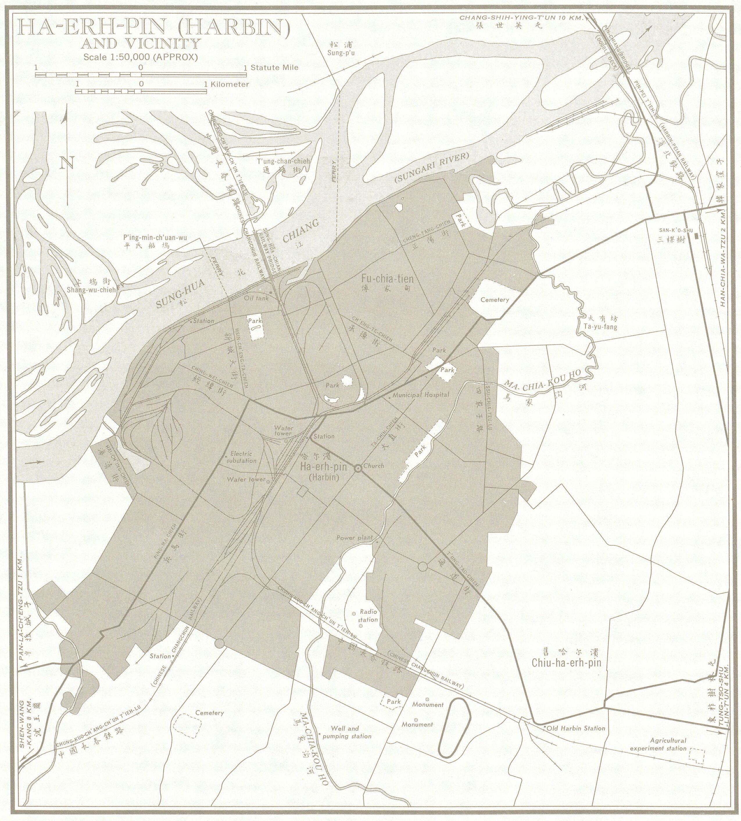 Manchuria AMS Topographic Maps